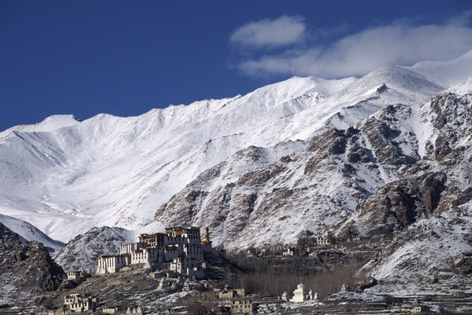 The gompa (monastery) at Likir, Ladakh, India. Photo by Joe Morris